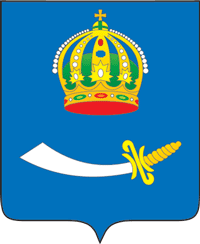 Astrakhan, coat of arms